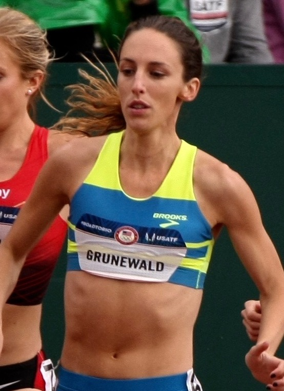 2016 U.S. Olympic Team Trials – Track & Field